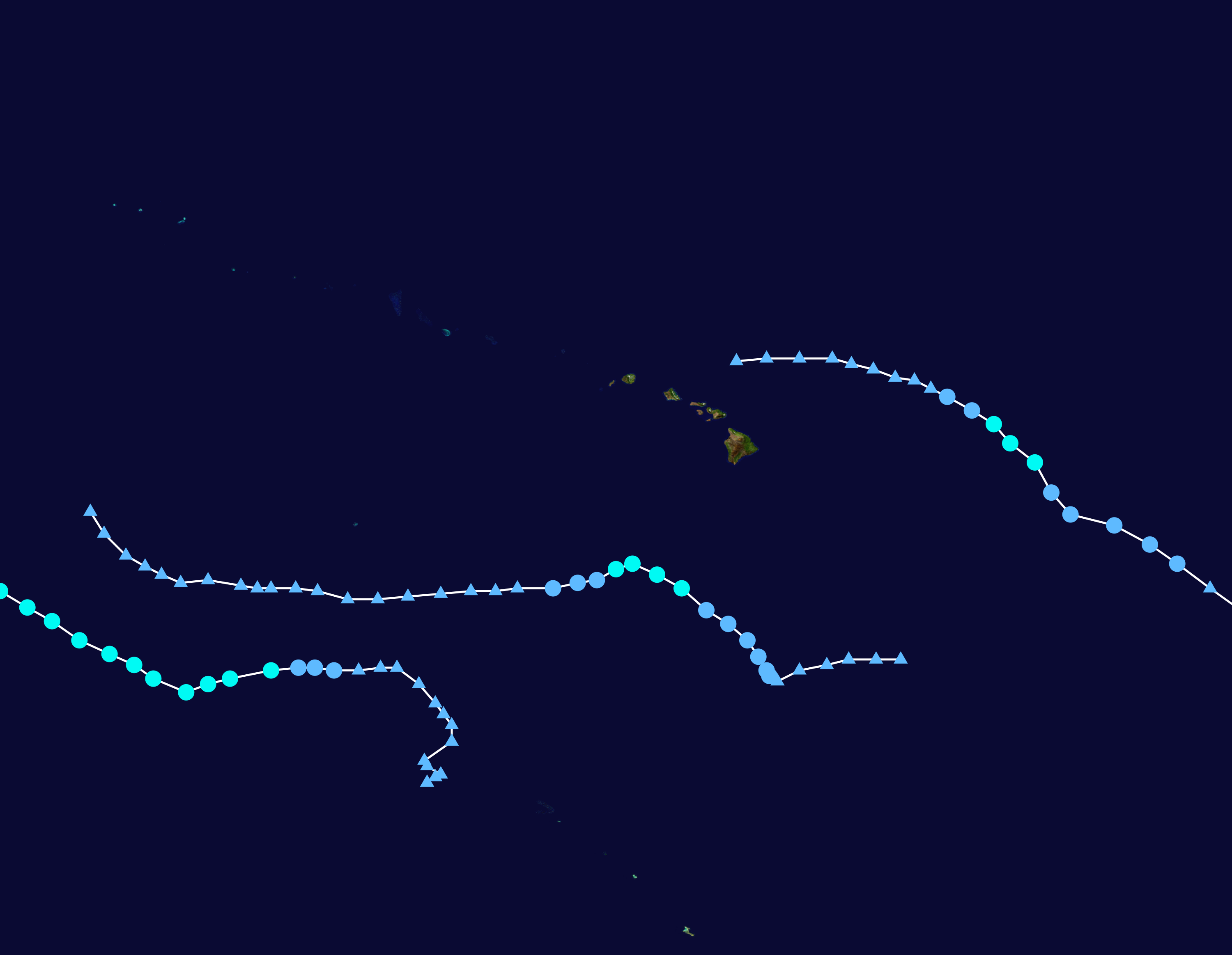 Track map of Tropical Storms Halola (left), Iune (center), and Ela (right) across the Central Pacific basin during July 2015; part of the 2015 Pacific hurricane season. The points show the location of the storm at 6-hour intervals. The colour represents the storm's maximum sustained wind speeds as classified in the Saffir-Simpson Hurricane Scale (see below), and the shape of the data points represent the nature of the storm, according to the legend below. Saffir–Simpson hurricane wind scale Tropical depression≤38 mph≤62 km/h Category 3111–129 mph178–208 km/h Tropical storm39–73 mph63–118 km/h Category 4130–156 mph209–251 km/h Category 174–95 mph119–153 km/h Category 5≥157 mph≥252 km/h Category 296–110 mph154–177 km/h Unknown Storm typeTropical cycloneSubtropical cycloneExtratropical cyclone / Remnant low / Tropical disturbance